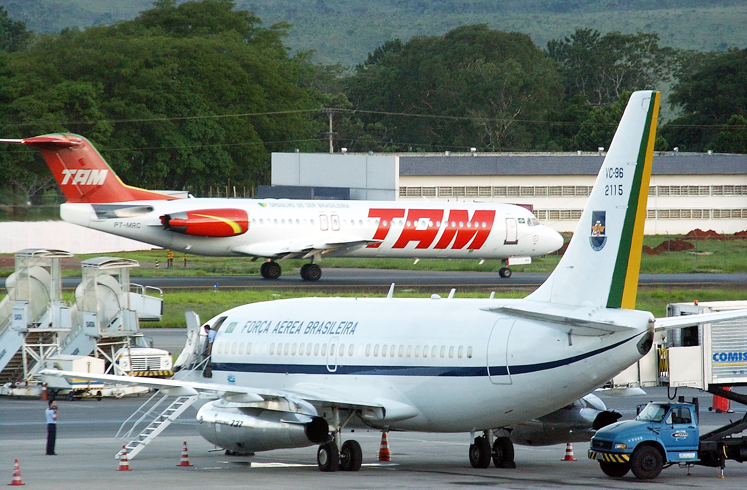 One of the Brazilian Air Force's jets, pressed into service for TAM during the Brazilian aviation crisis. TAM Linhas Aéreas Fokker F-100 (PT-MRC) Boeing 737-2N3 (VC-96 2115) Força Aérea Brasileira